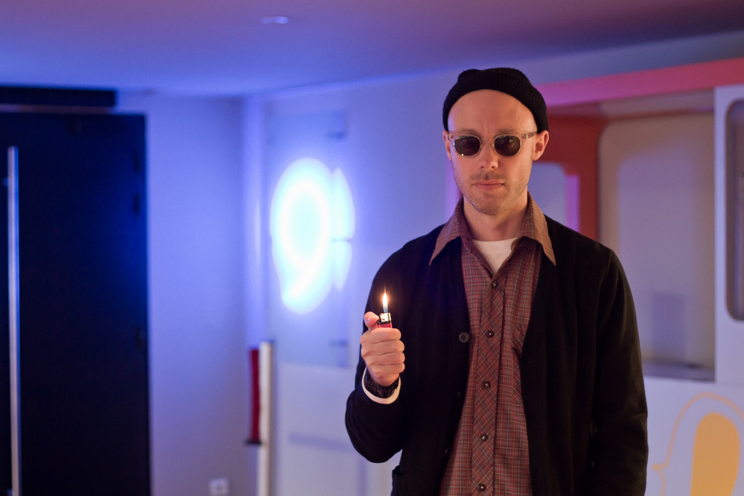 U.S. film director Joel Potrykus in the lobby before a screening of his film "Ape" at the 2012 Belfort Entrevues Film Festival.